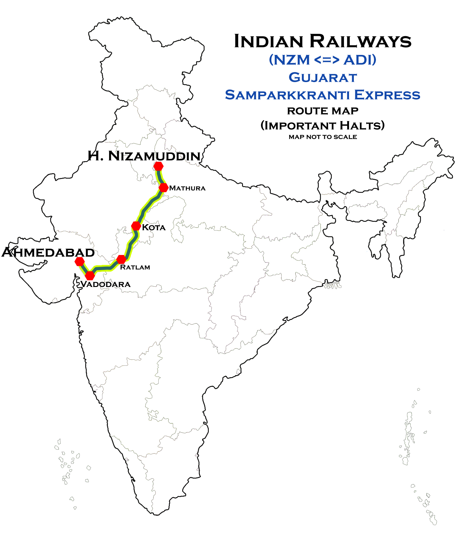 Gujarat Samparkkranti Express (NZM - ADI) Route map